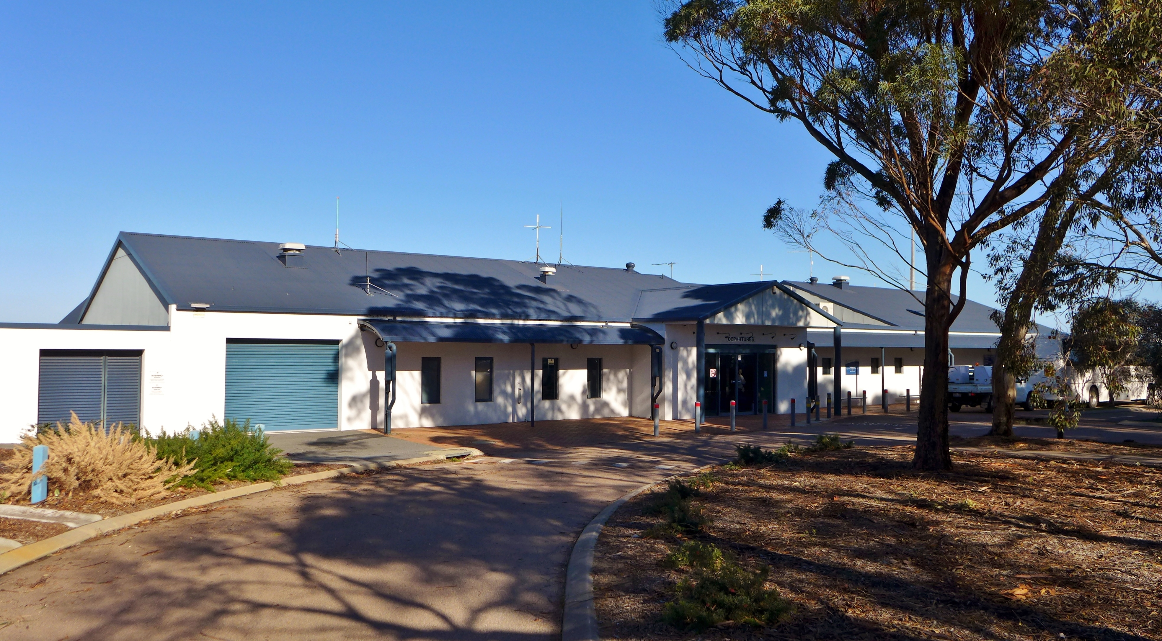 View of the terminal at Esperance Airport, Western Australia